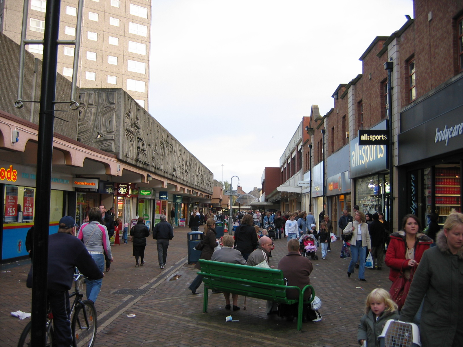 Motherwell town centre, North Lanarkshire, Scotland. Taken by Supergolden on 5th November 2005.